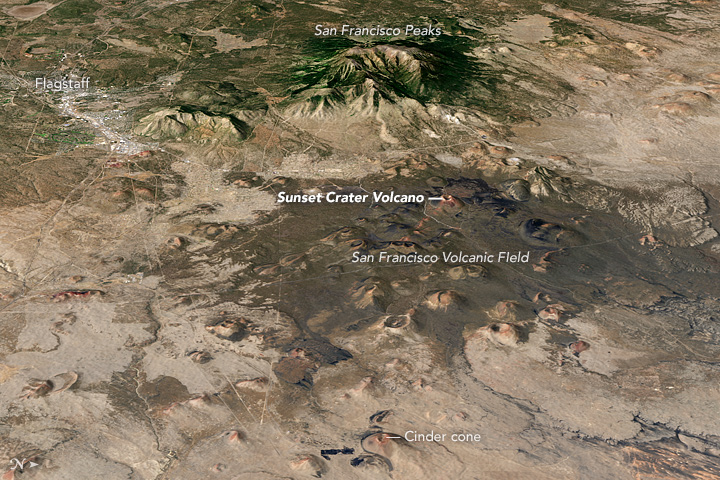 On July 12, 2016, the Operational Land Imager (OLI) on the Landsat 8 satellite captured a natural-color image (above) of the crater and the surrounding San Francisco Volcanic Field. The image was draped over terrain data from the Advanced Spaceborne Thermal Emission and Reflection Radiometer (ASTER). Note: the scene was rotated to create this image, so north is to the right. The closeup below shows Sunset Crater as observed by OLI, but without the terrain drape (north is up). To the east of the cone, a field of dark, hardened rock from the Bonita Lava Flow is still visible. Sunset is the youngest in an aggregation of more than 600 volcanoes in the San Francisco Volcanic Field, according to the U.S. Geological Survey. The field covers roughly 1,800 square miles (4,600 square kilometers), and many of its volcanoes formed over the course of months to years. [References in original at link]